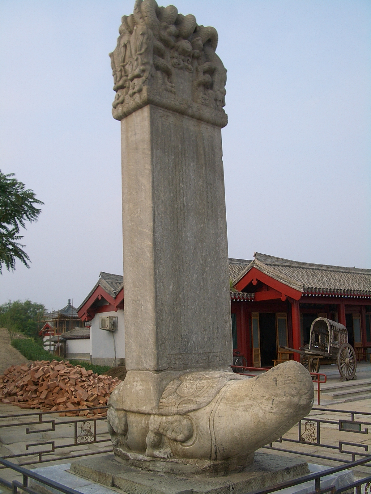 The stele commemorating Kangxi Emperor's rebuilding of the eastern part of the Lugou Bridge after it was damaged by flood. It stands on top of a bixi turtle, next to Qianlong's "Morning moon over the Lugou" stele, and is noticeably eroded. The sign by the stele says that it was put up in the 8th year of the Kangxi era (i.e. circa 1669), commemorating the rebuilding that took place in the 7th year of Kangxi era (i.e., ca. 1668). However, most sources only mention Kangxi's rebuilding that took place in 1698.